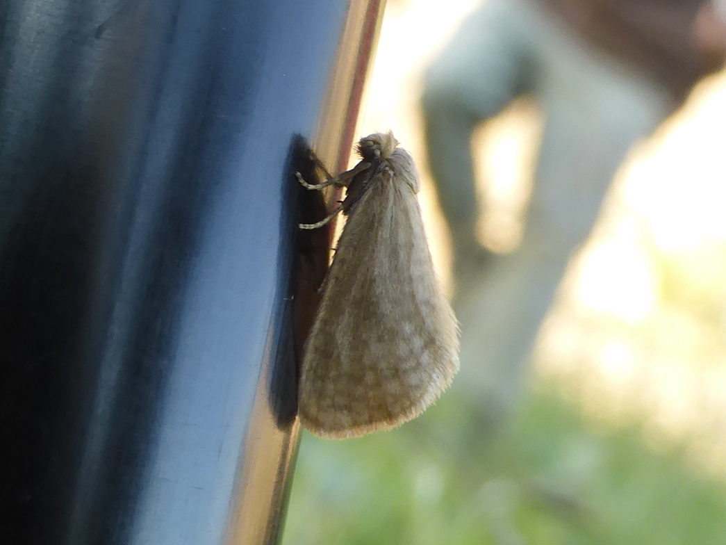 Bijugis bombycella